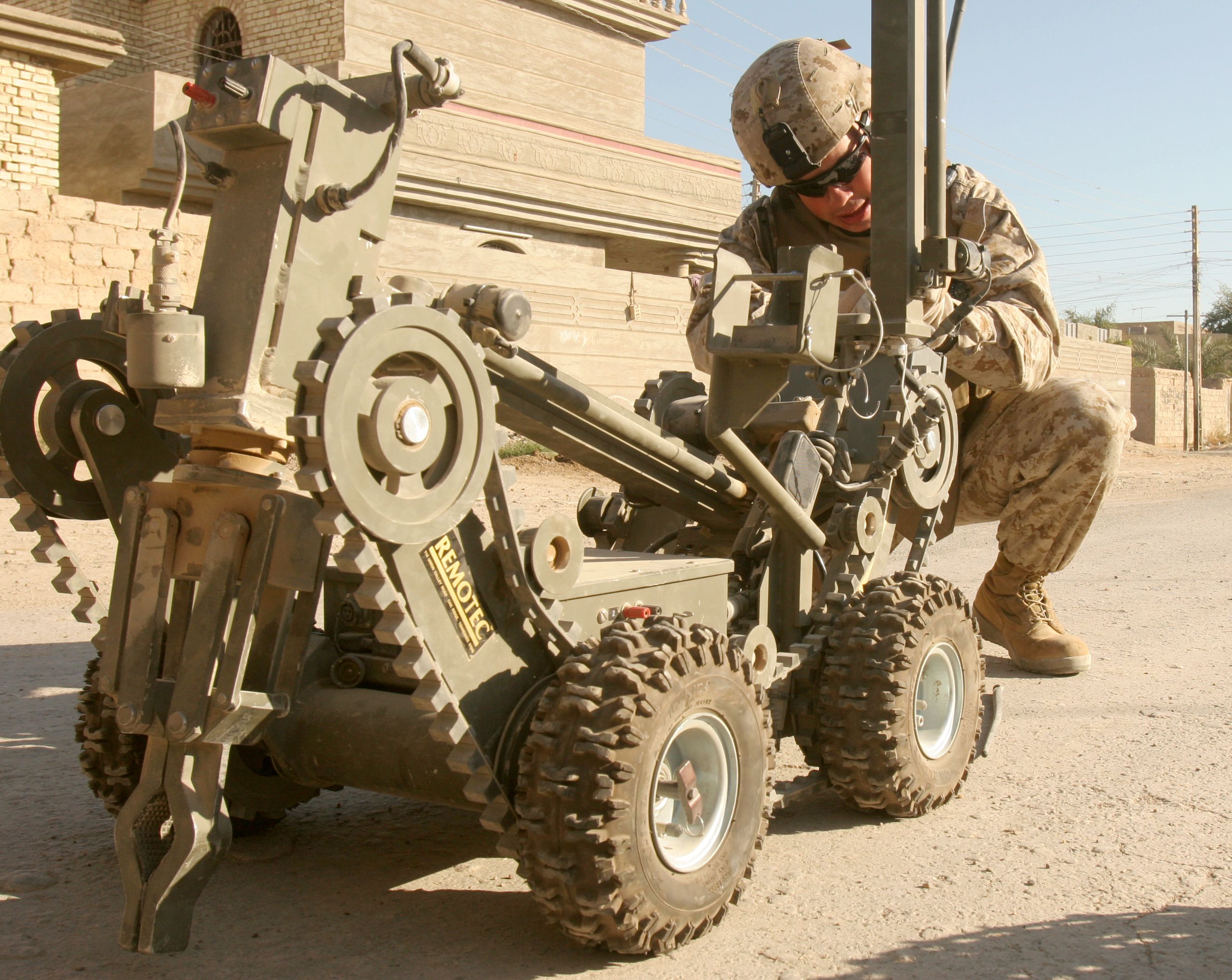 IED DETONATOR — A U.S. Marine Corps explosive ordnance disposal technician prepares to deploy a device that will detonate a buried improvised explosive device near Camp Fallujah, Iraq, Nov. 27, 2005. The Marine is assigned to Combat Logistics Brigade 8, 2nd Marine Logistics Group. U. S. Marine Corps photo by Lance Cpl. Bobby J. Segovia.